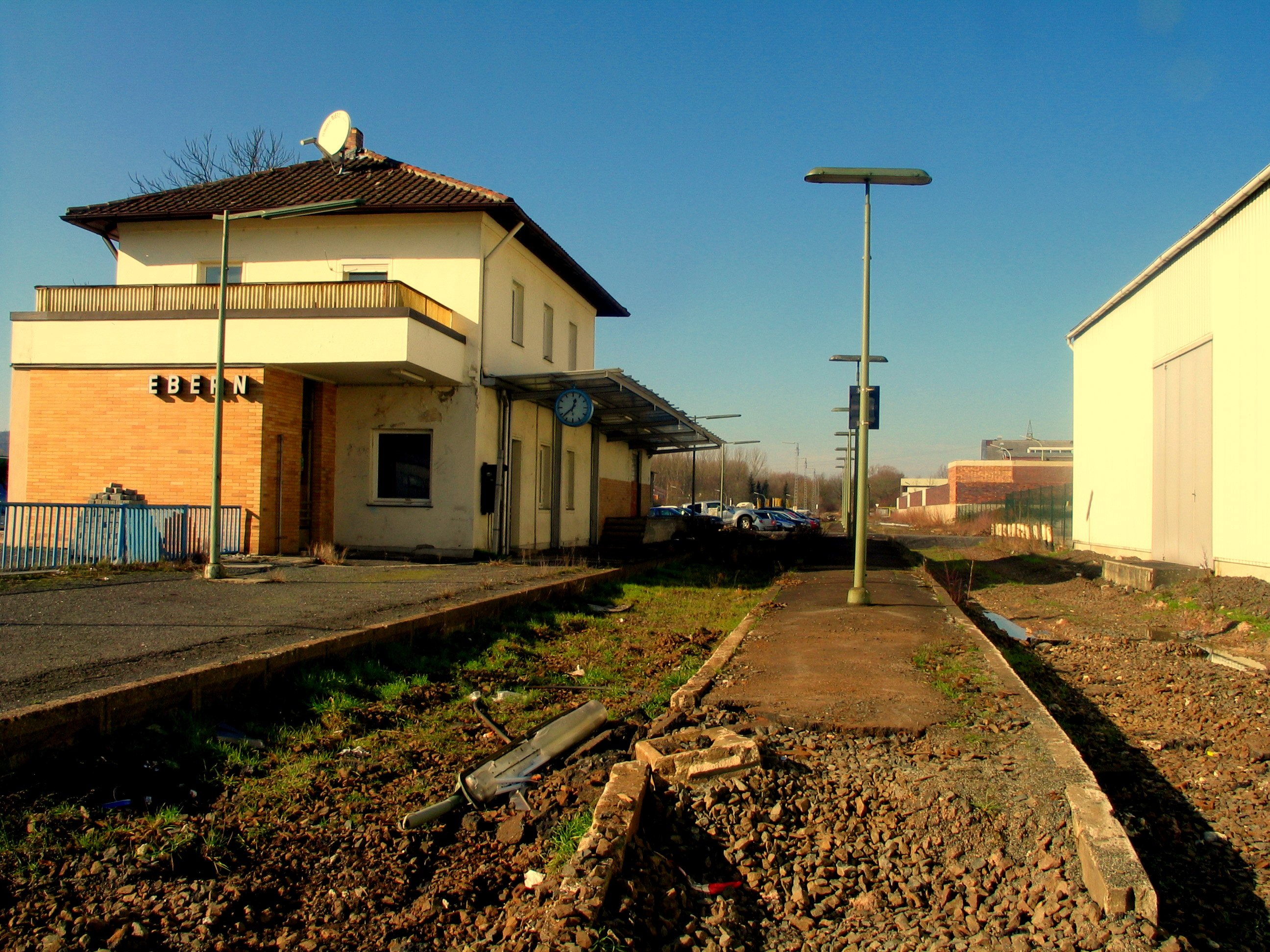 Ebern: Former train station